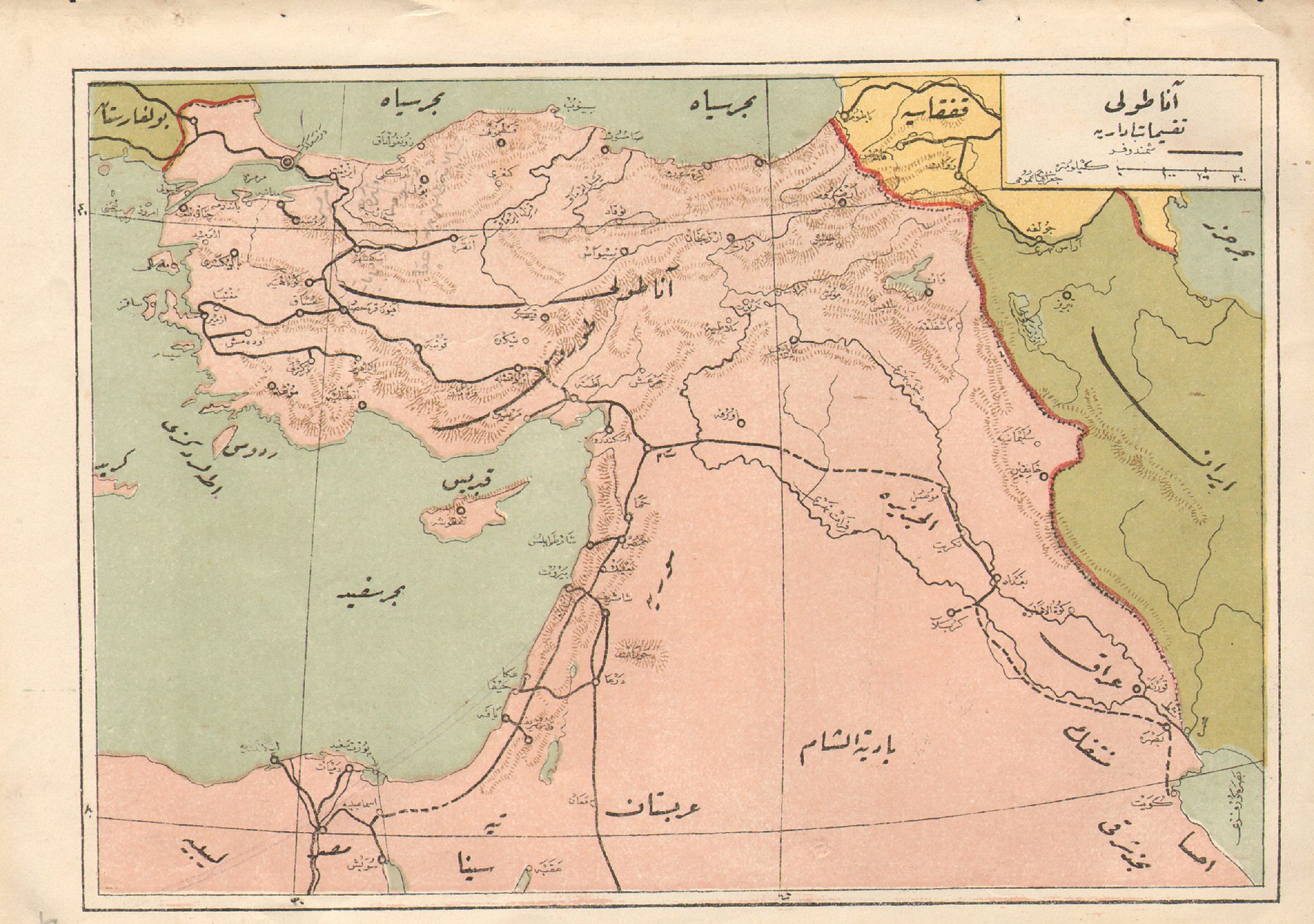 Ataturk Kitapligi. The first is Htr_Gec_00063